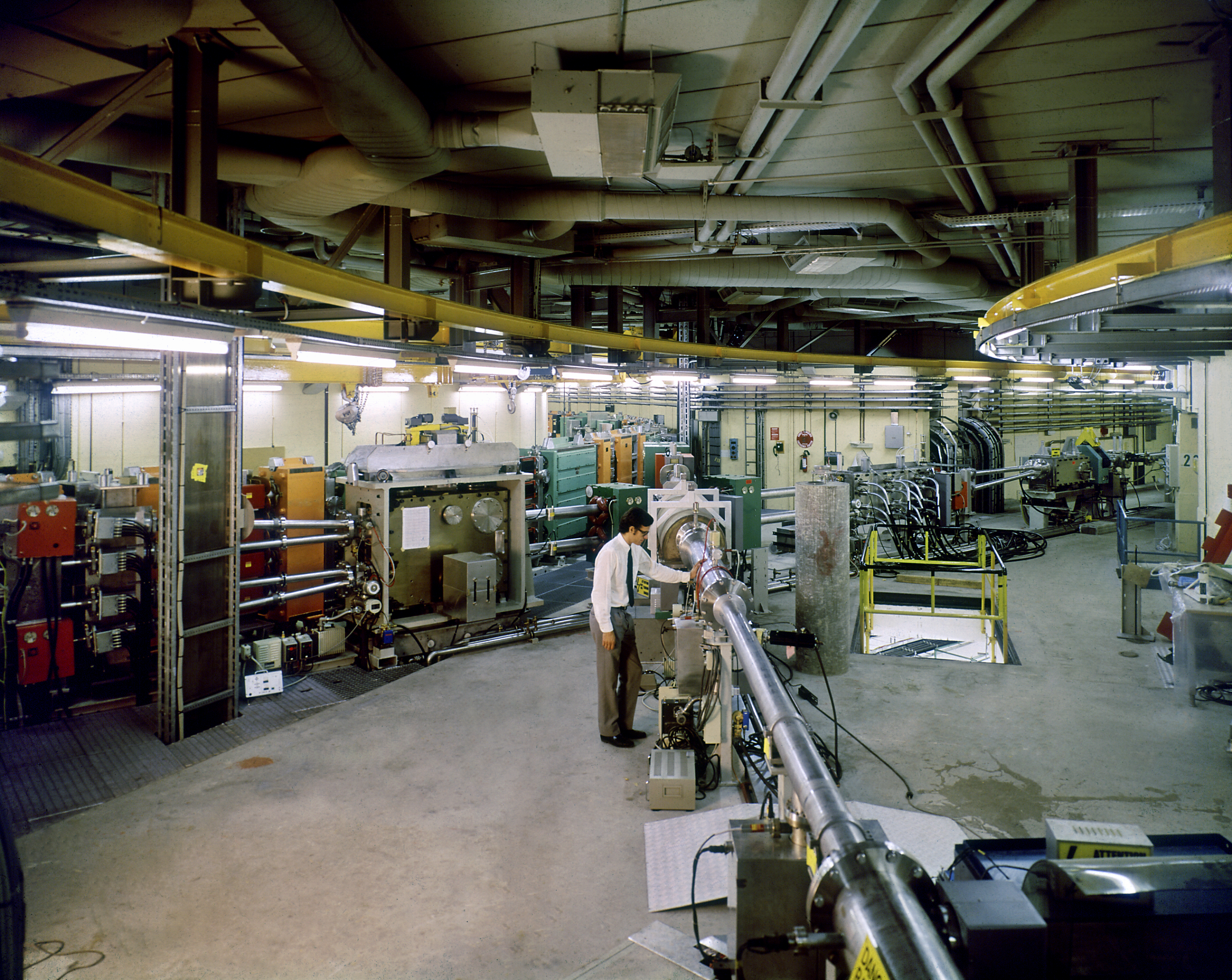 In the foreground is the vacuum chamber for the incoming proton beam coming from the Linac. The tank held by white frames houses the "Vertical Distributor", which deflects the incoming beam to the levels of the Booster's four superposed rings. After acceleration in the Booster, the beams from the four rings are combined in the vertical plane and transfered to the Proton Synchrotron. The "Recombination Line", intersecting the injection line, crosses the picture from left to right.